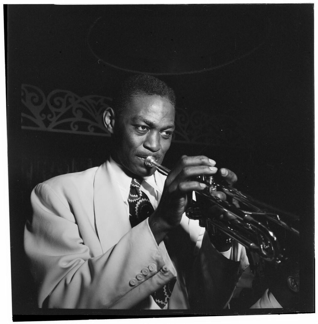 Taft Jordan, Aquarium, New York, N.Y., ca. Nov. 1946 (Photograph by William P. Gottlieb)